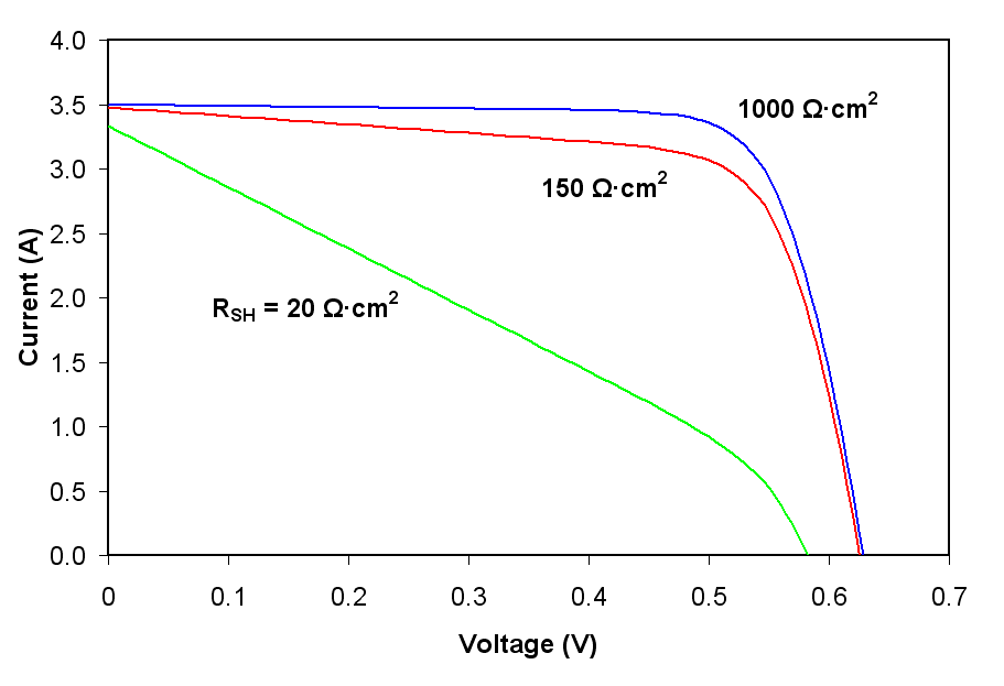 Solar cell I-V curve as a function of specific shunt resistance.